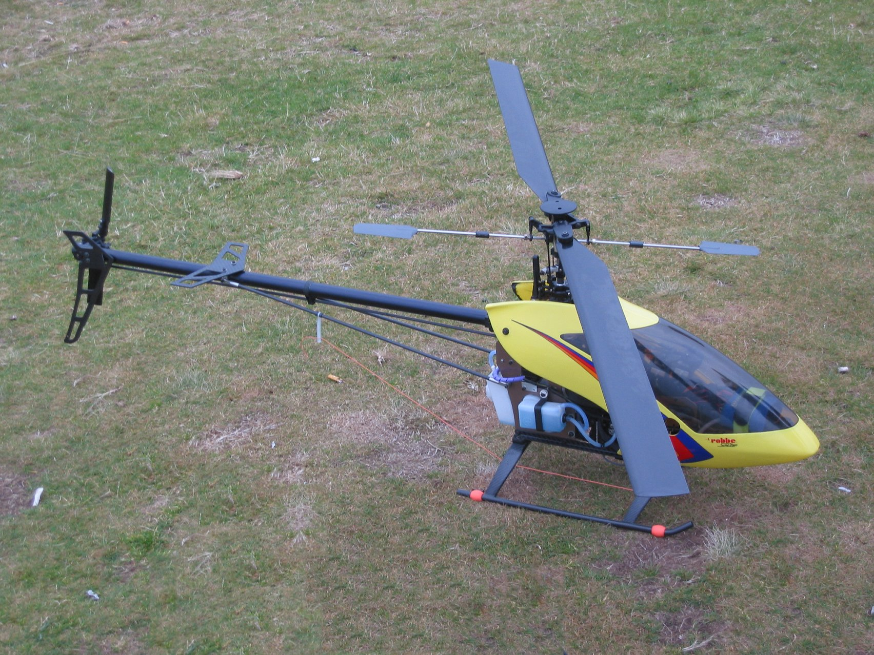 Helicopter